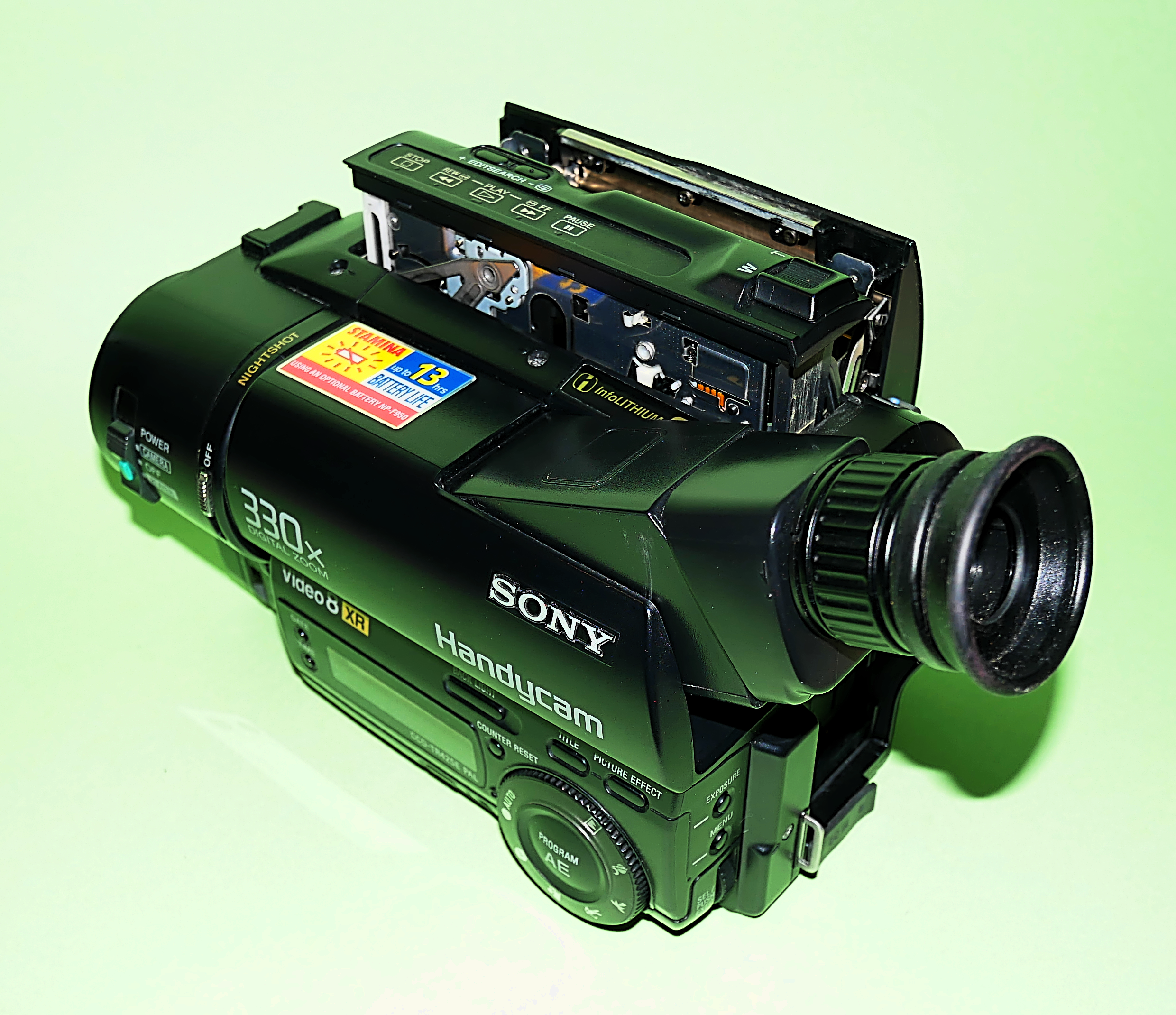 Sony Video 8 CCD-TR425E PAL camcorder. Analog recording device for home videos. Ready for a cassette to be inserted. The camera finder is electronic.